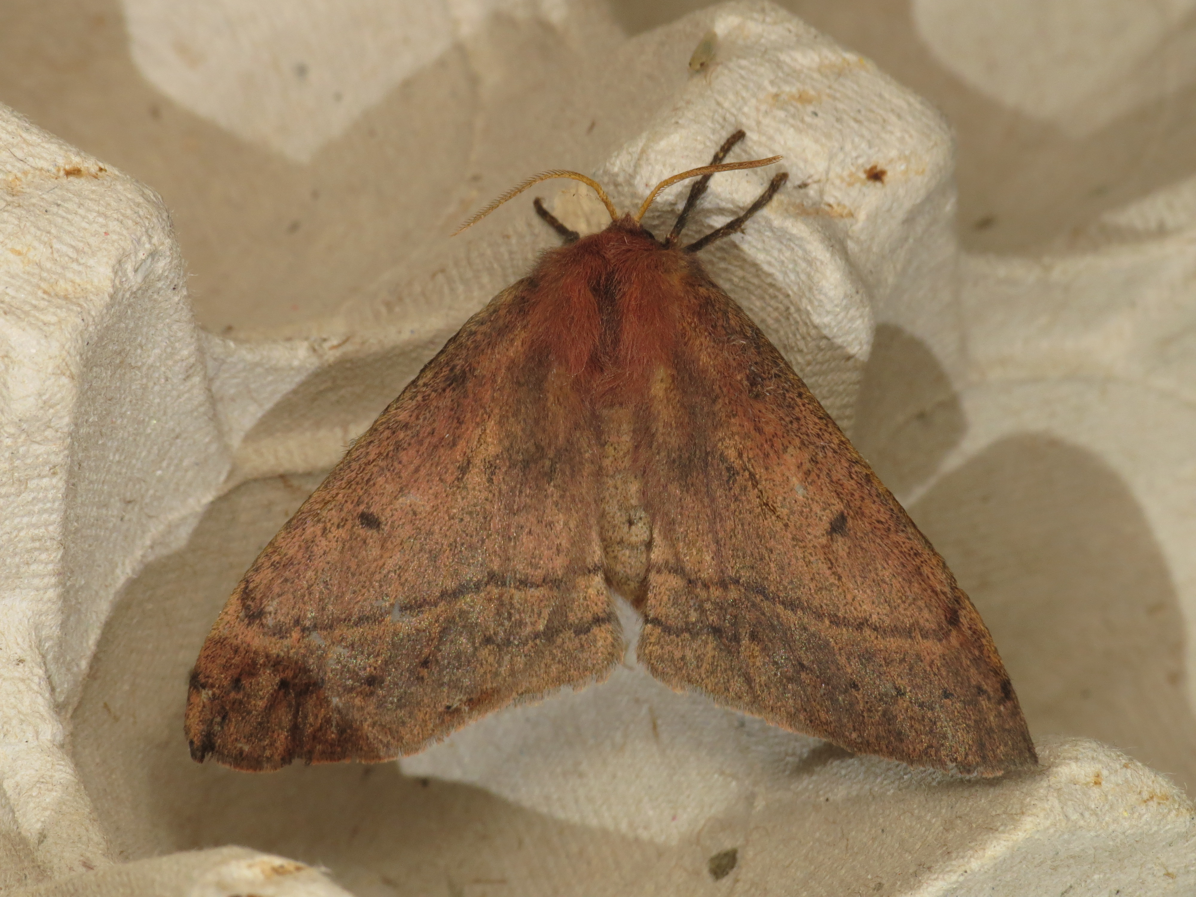 Anthela repleta (Walker, 1955), to actinic light, Blackheath, NSW, 8/9 November 2014